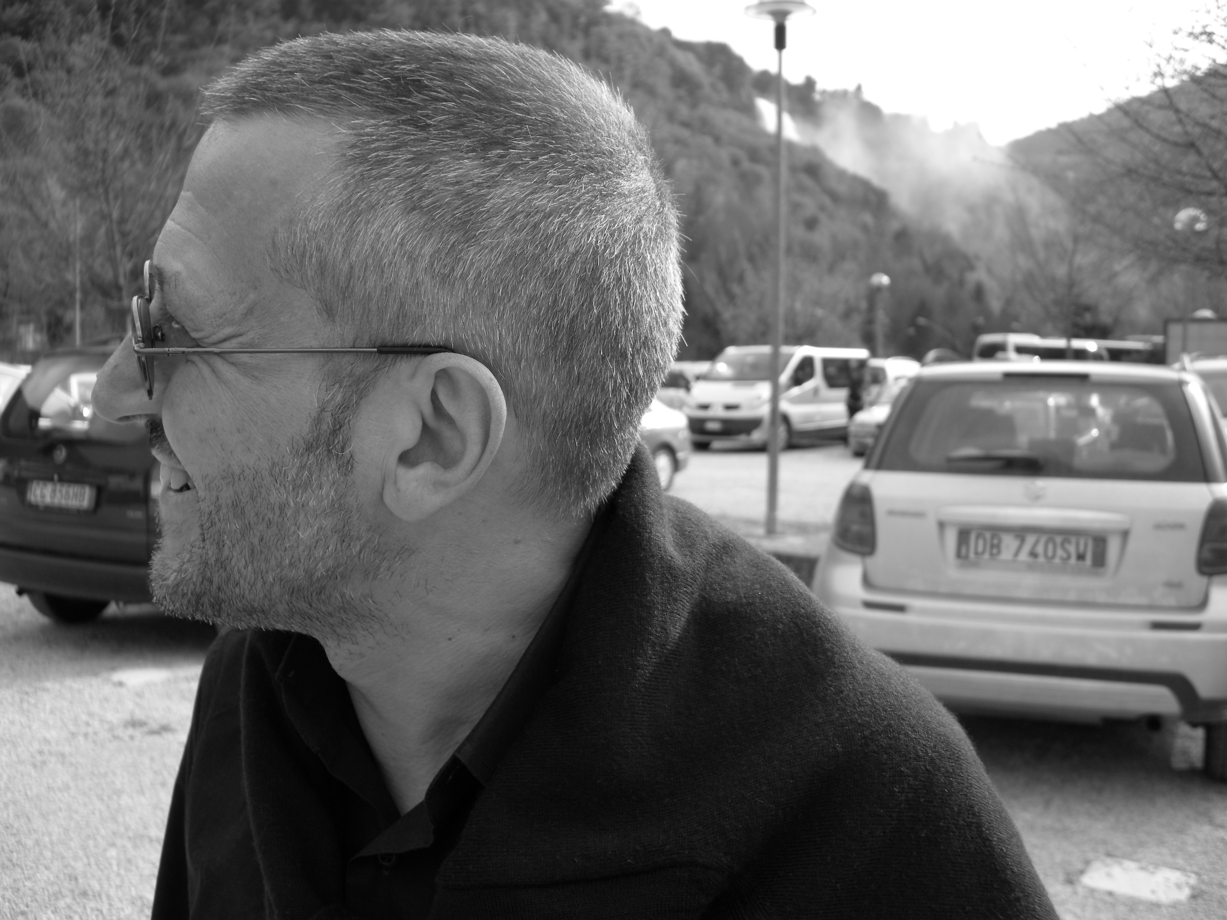 Tonino Griffero black and white. [OTRS Ticket#2012060810009747]